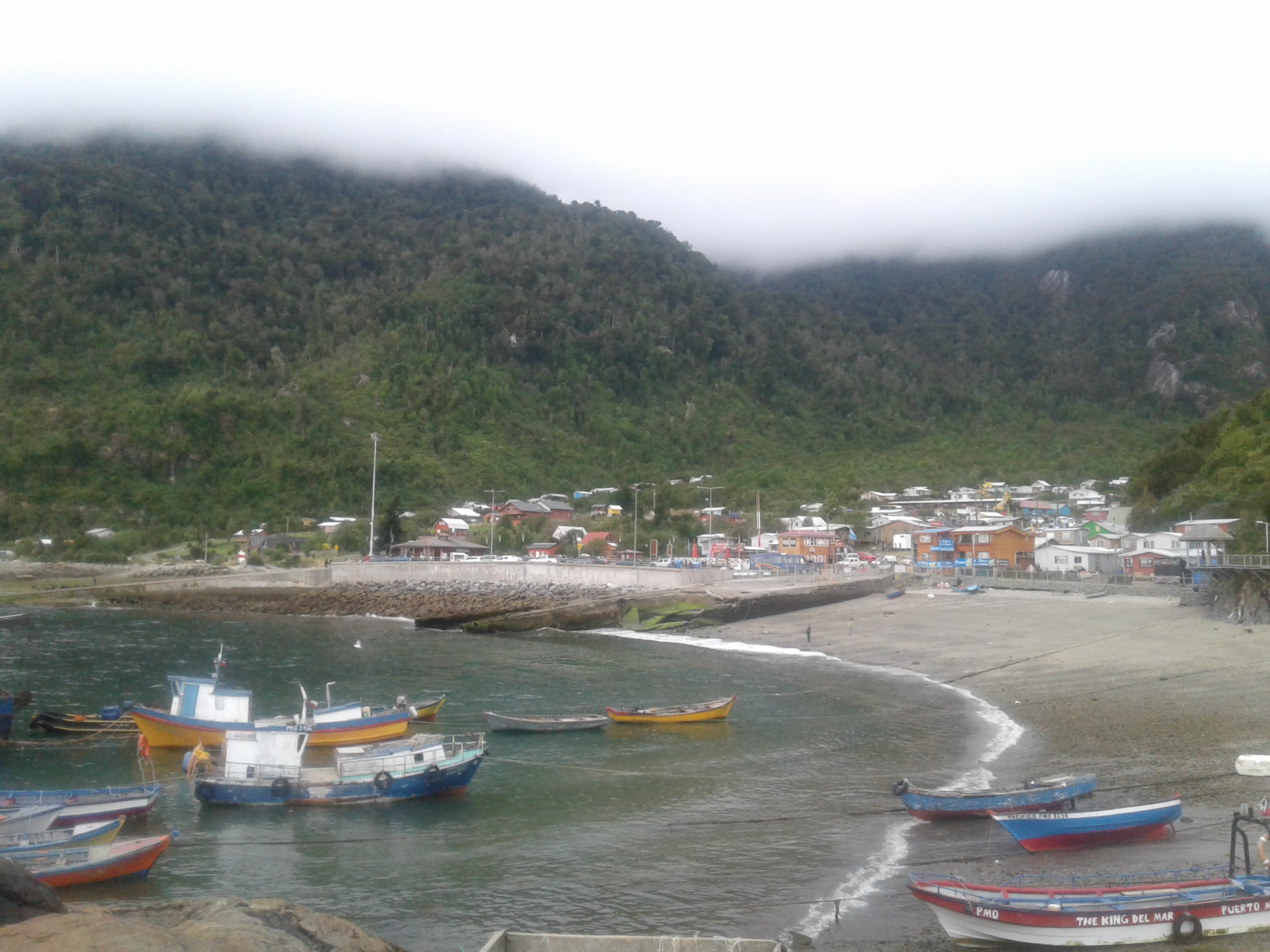 La Arena Cove, February 2019